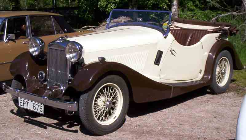 British Salmson S4C 12/70 4-Seater Tourer 1935